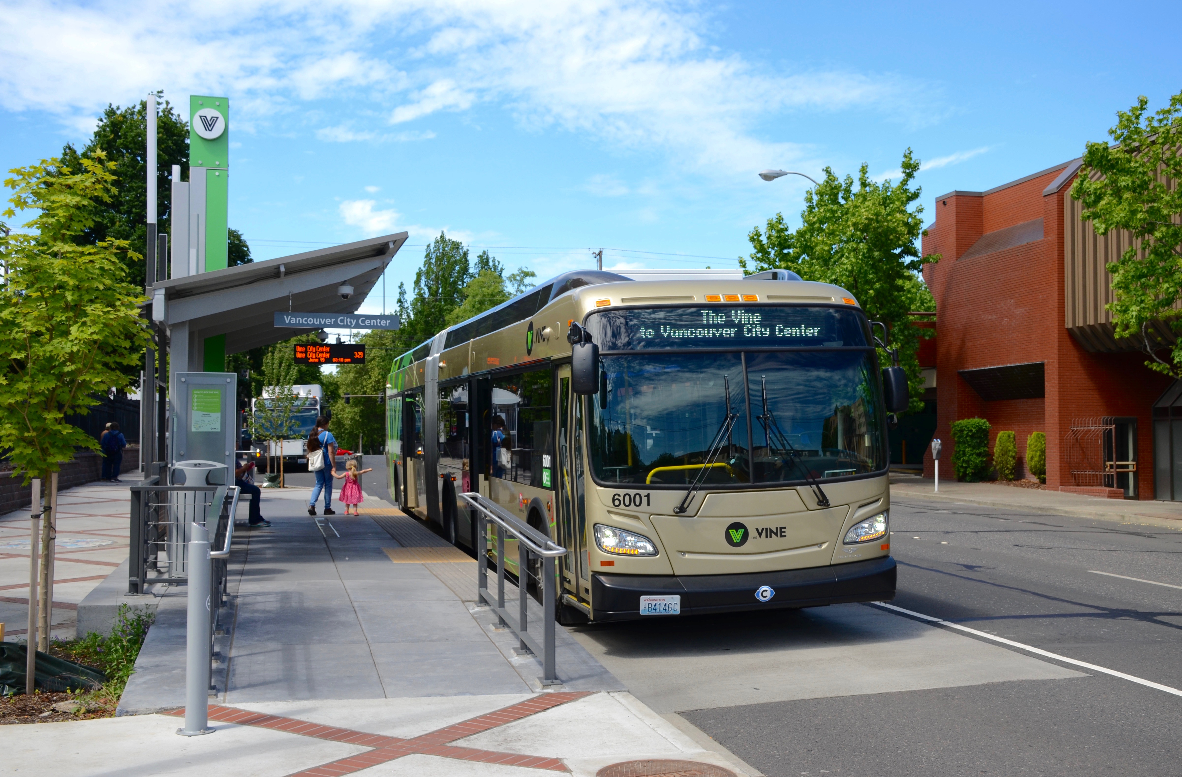 An articulated bus inbound on C-Tran's "The Vine" bus-rapid-transit service stopped at the Washington & 12th station (on Wash. St. at 12th St.), in downtown Vancouver. Bus 6001 is a 2016-built New Flyer "Xcelsior" hybrid bus, model XDE60. Just discernible in the background is a more conventional C-Tran bus (a 40-foot Gillig bus) stopped at the regular C-Tran bus stop located immediately north of the Vine station.